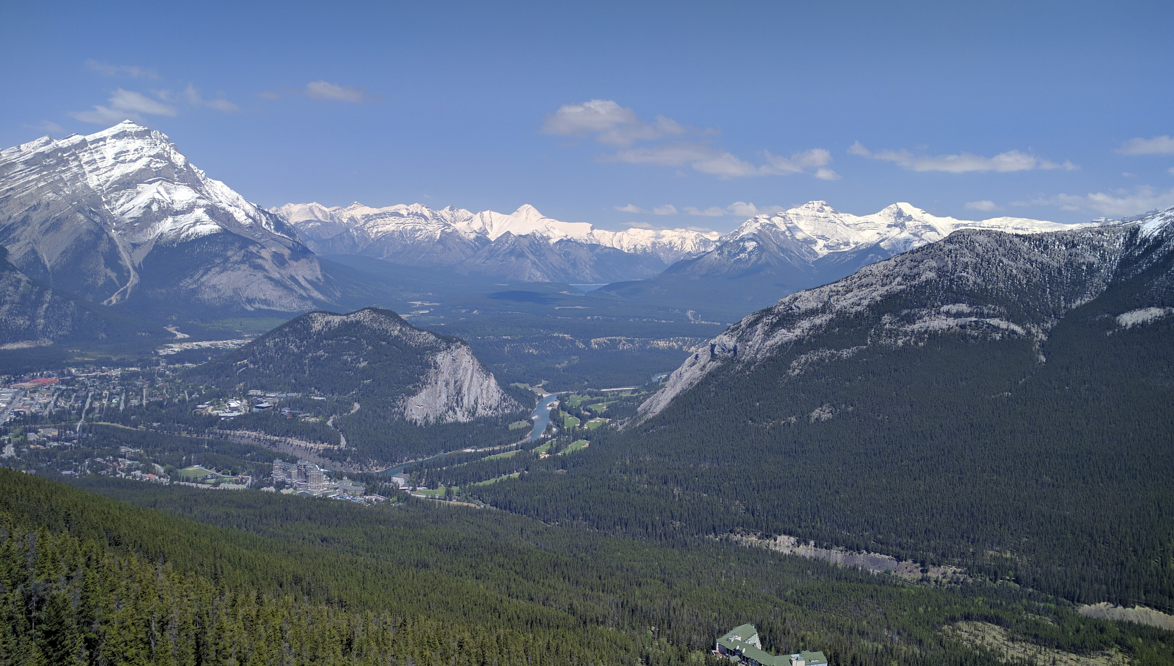 Banff national park 2016